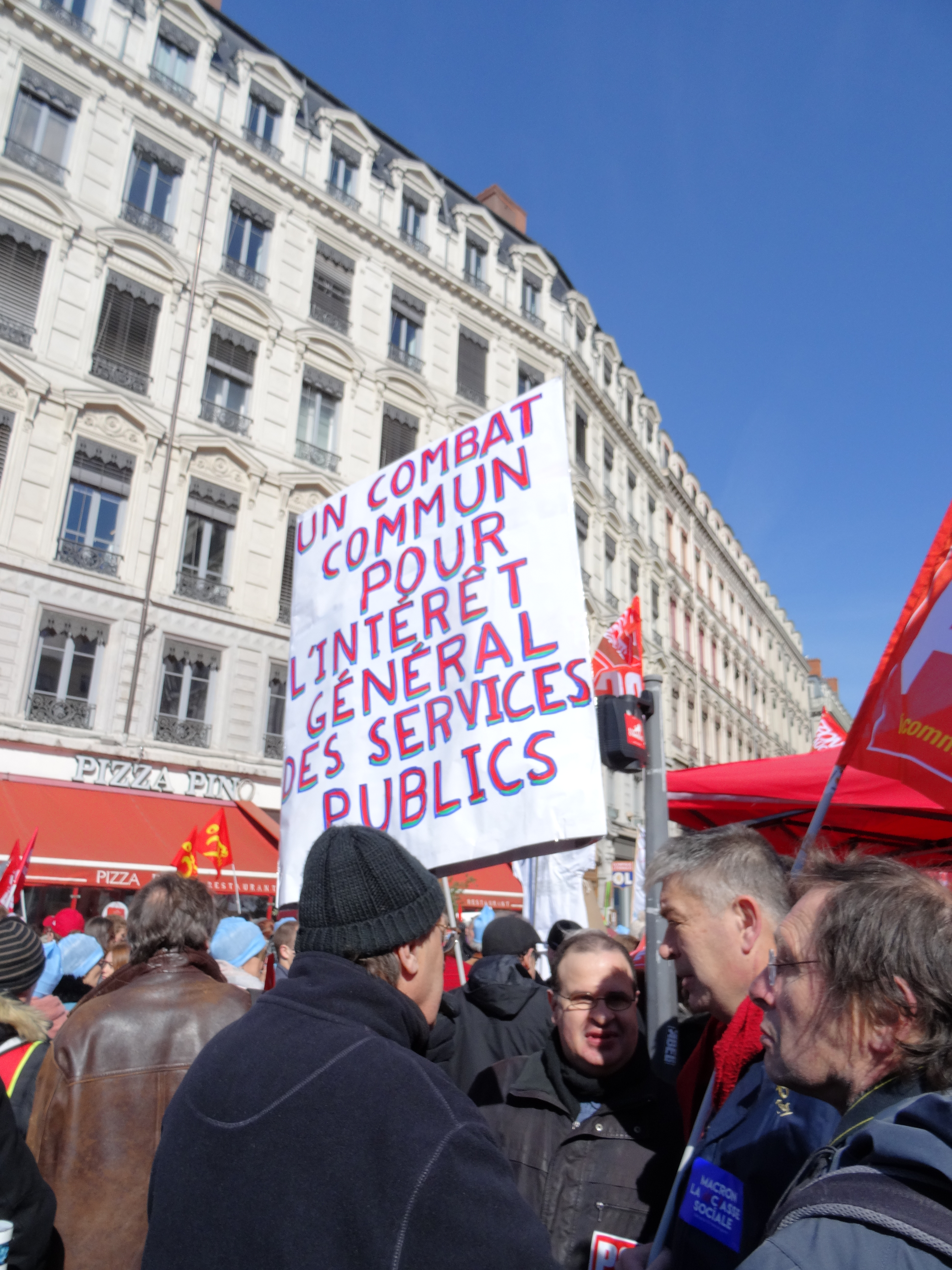 Manif fonction publique 22 mars 2018 Grosse mobilisation à Lyon ! 15.000 manifestants Demontration in Lyon, France, to maintain our public services - against government's laws. French people protesting against upcoming reforms bad for the quality of public services. As a result of those reforms, criteria of public service begin to give way to those of profitability. Our state services in France (heath, school, railway...) are among the best services in the world. But all the reforms impulsed by the government aim to slowly replace this very efficient public sector (open to everybody) by a private sector only focussed on financial gains. State-based social services and welfare entitlements are cut back or replaced by market-based provisions available only to those who can afford to pay. On March 22, hundreds of thousands of nurses, teachers and other public sector workers joined forces to march against French President Emmanuel Macron’s reforms all over the country yesterday. Estimates of the numbers of those joining rallies held in some 140 locations across the country vary between 323,000 (the ‘official’ tally) and 500,000, the figure issued by the Confédération Générale du Travail (CGT), one of the principal trade union organiser of the action.